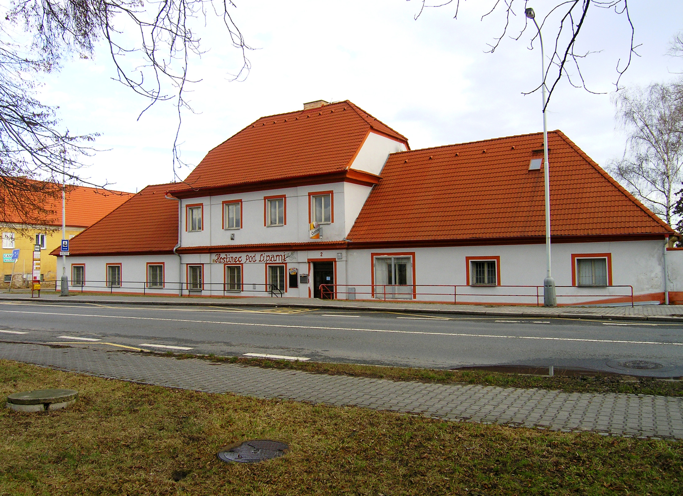 Pub at Na Hlavní street in Březiněves, Prague